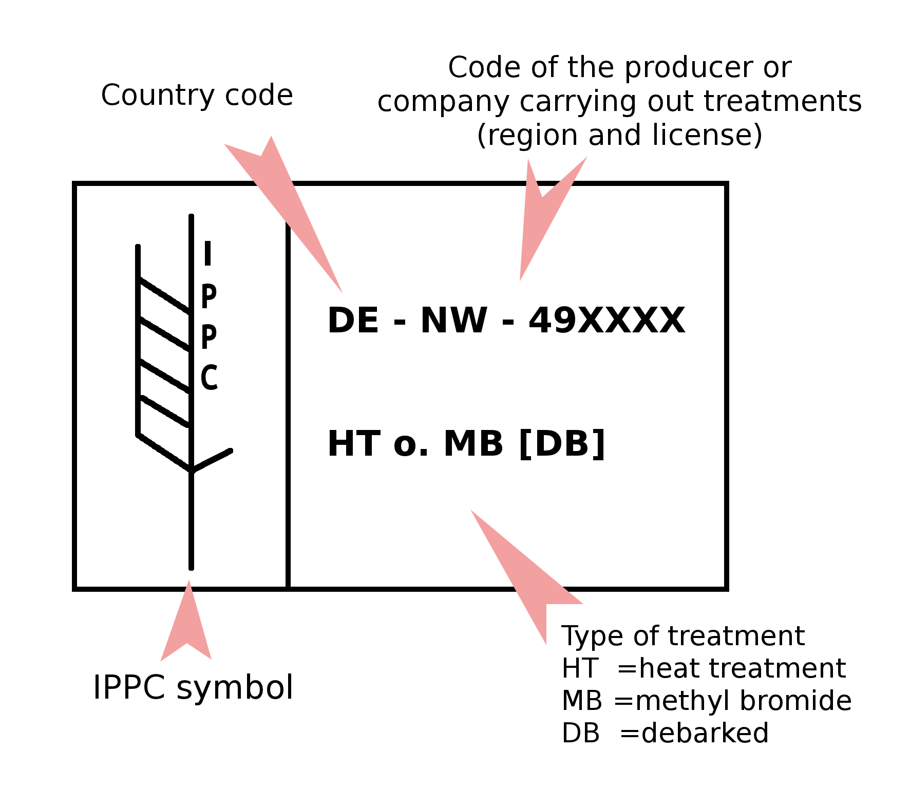 IPPC standard pallet markings, English version